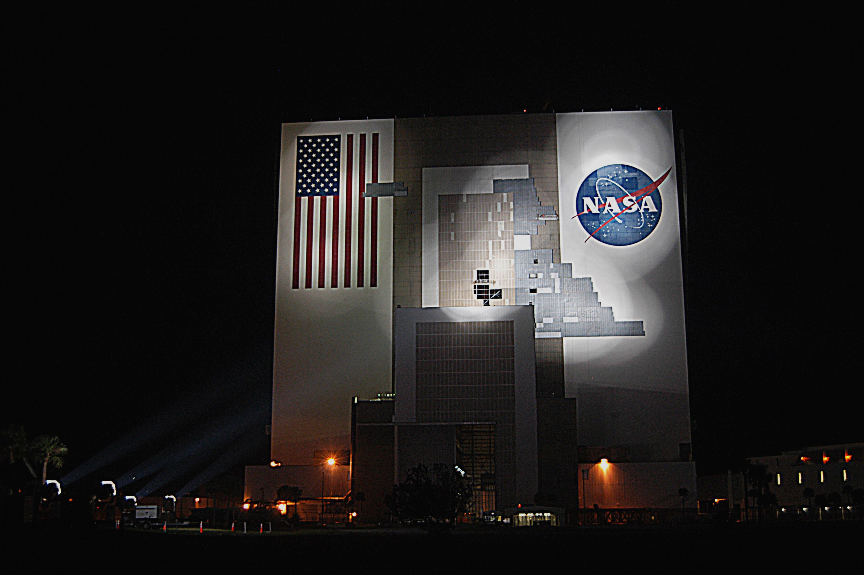 Xenon lights on the ground near the Vehicle Assembly Building (VAB) bathe the south wall in light, allowing workers on scaffolds (center and upper right near the NASA logo) to cover the holes with corrugated steel so the facility can be returned to performing operational activities. The VAB lost 820 panels from the south wall during Hurricane Frances, and 25 additional panels during Hurricane Jeanne.